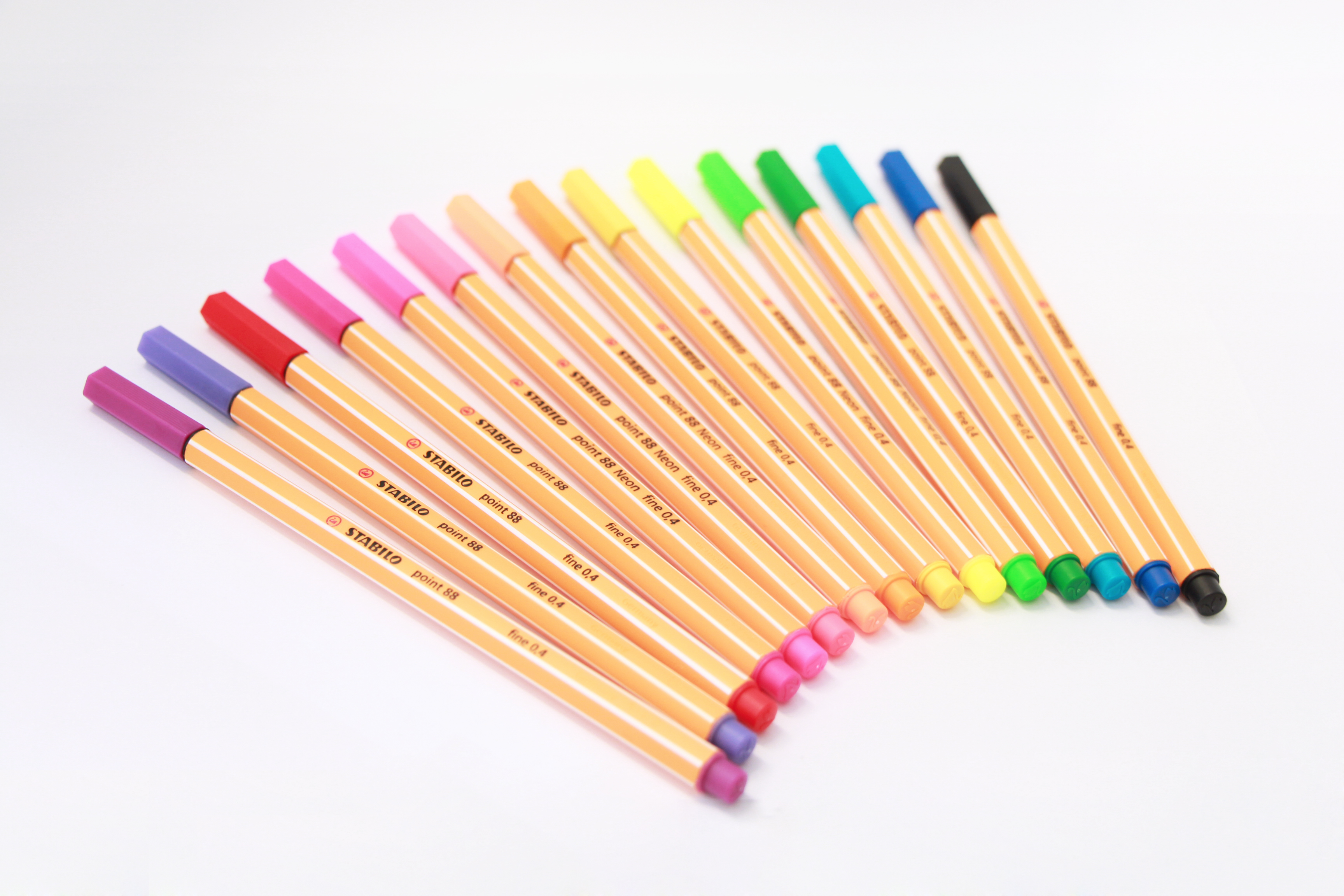 Stabilo Point 88